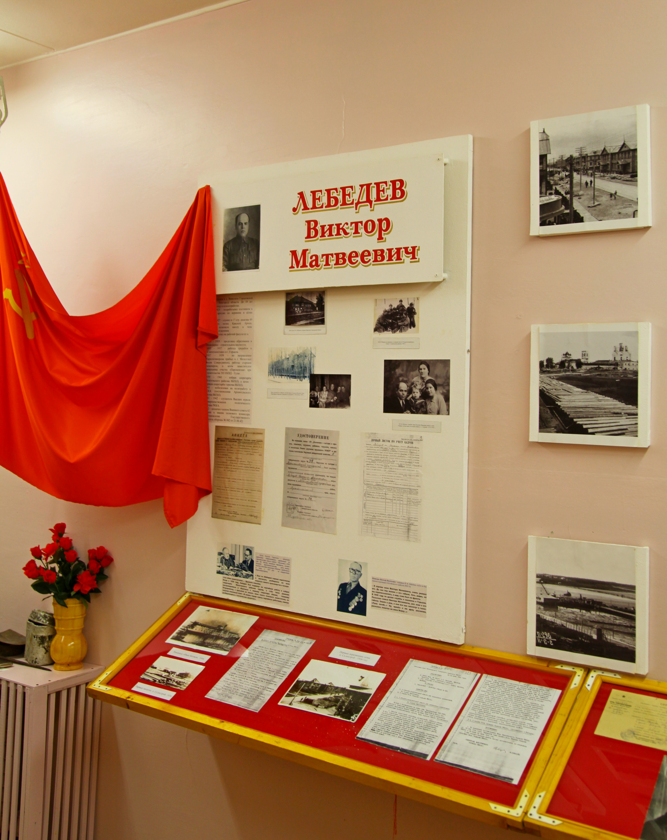 Lebedev's Museum, Severodvinsk